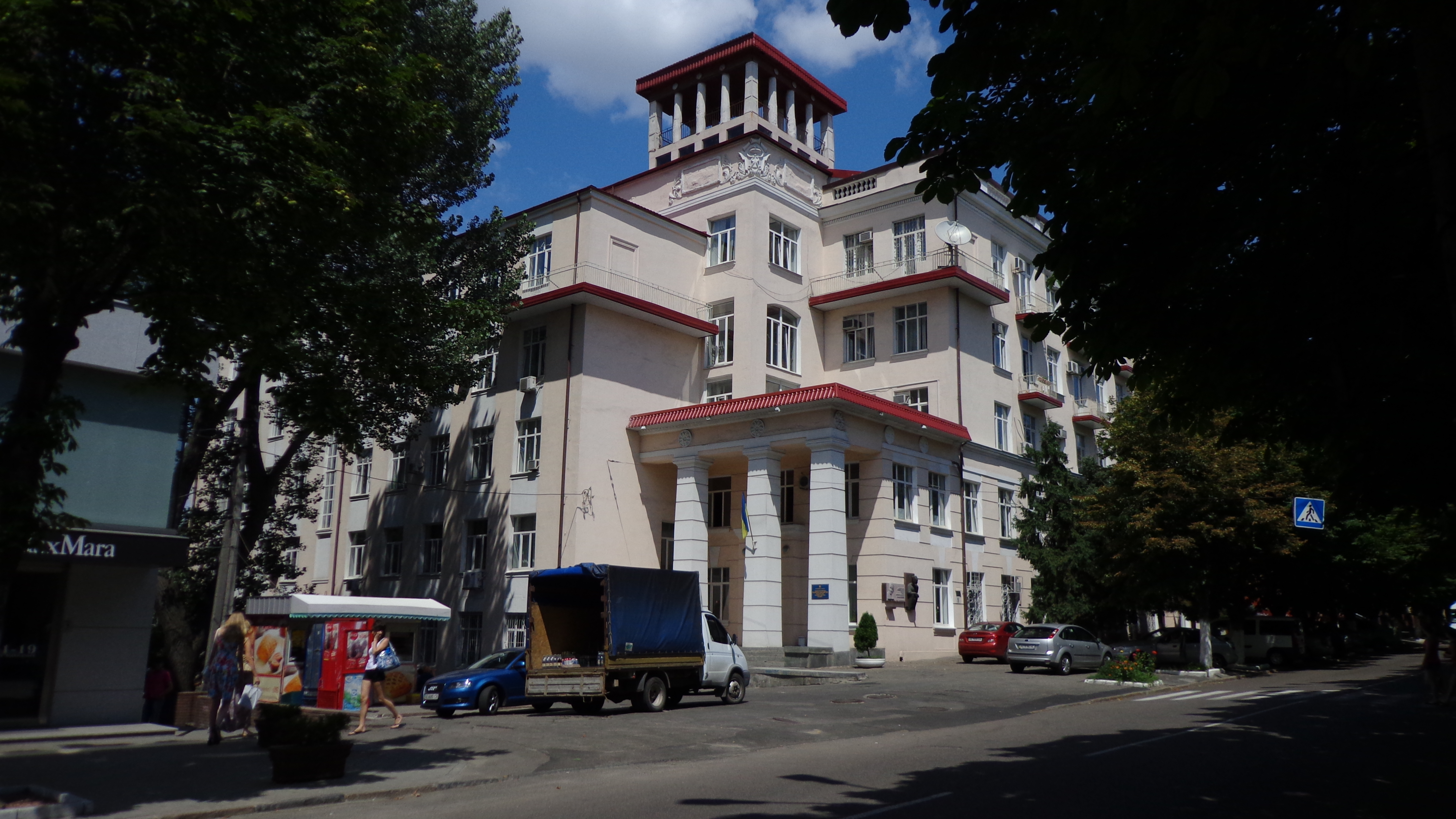 The Dnipropetrovsk State Medical Academy